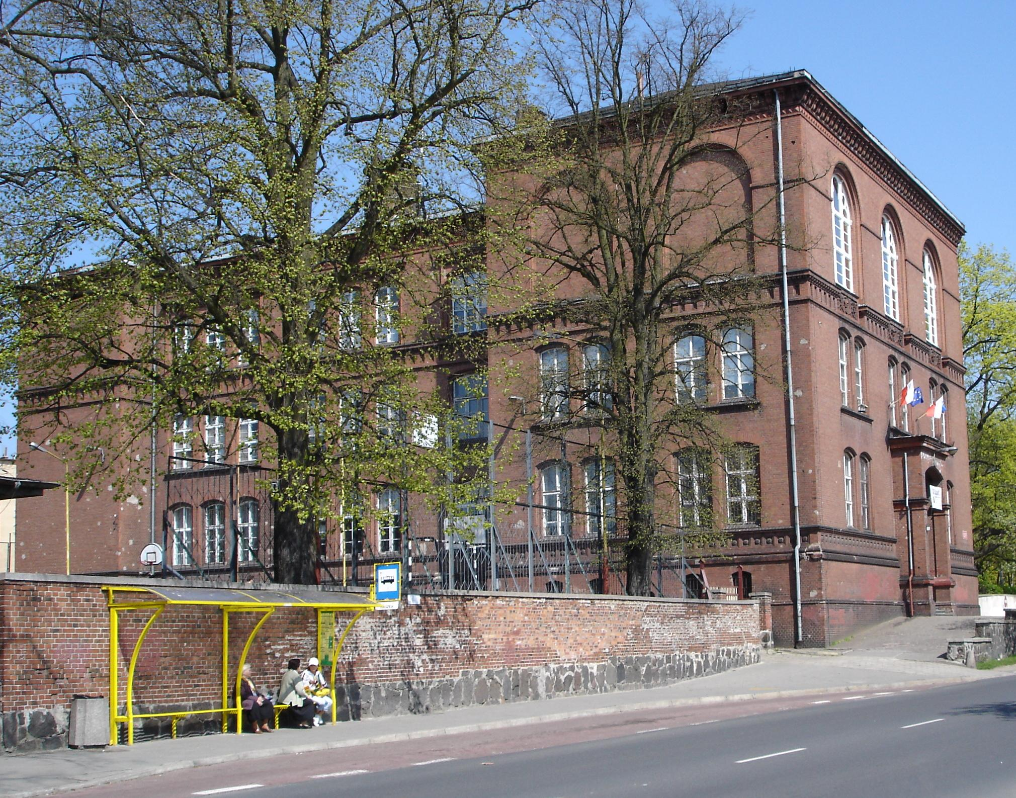 I LO in Stargard Szczeciński, Poland